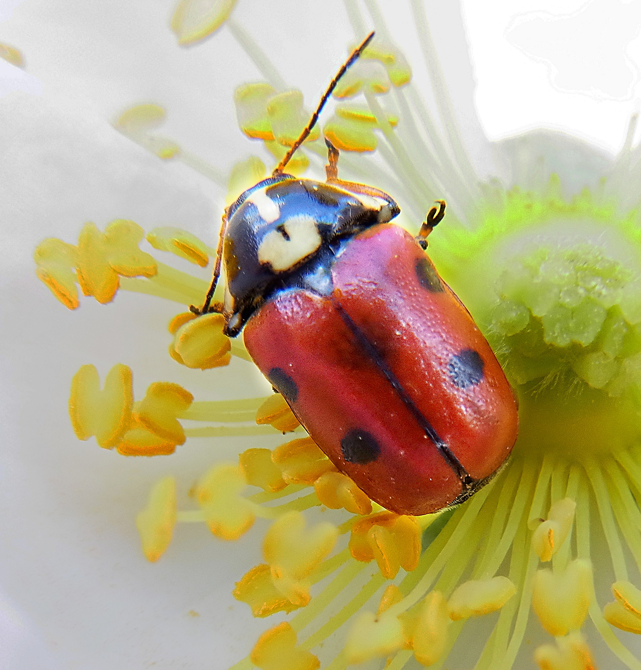 Cryptocephalus cordiger from Hungary Villany-mountains at 2012-05-08